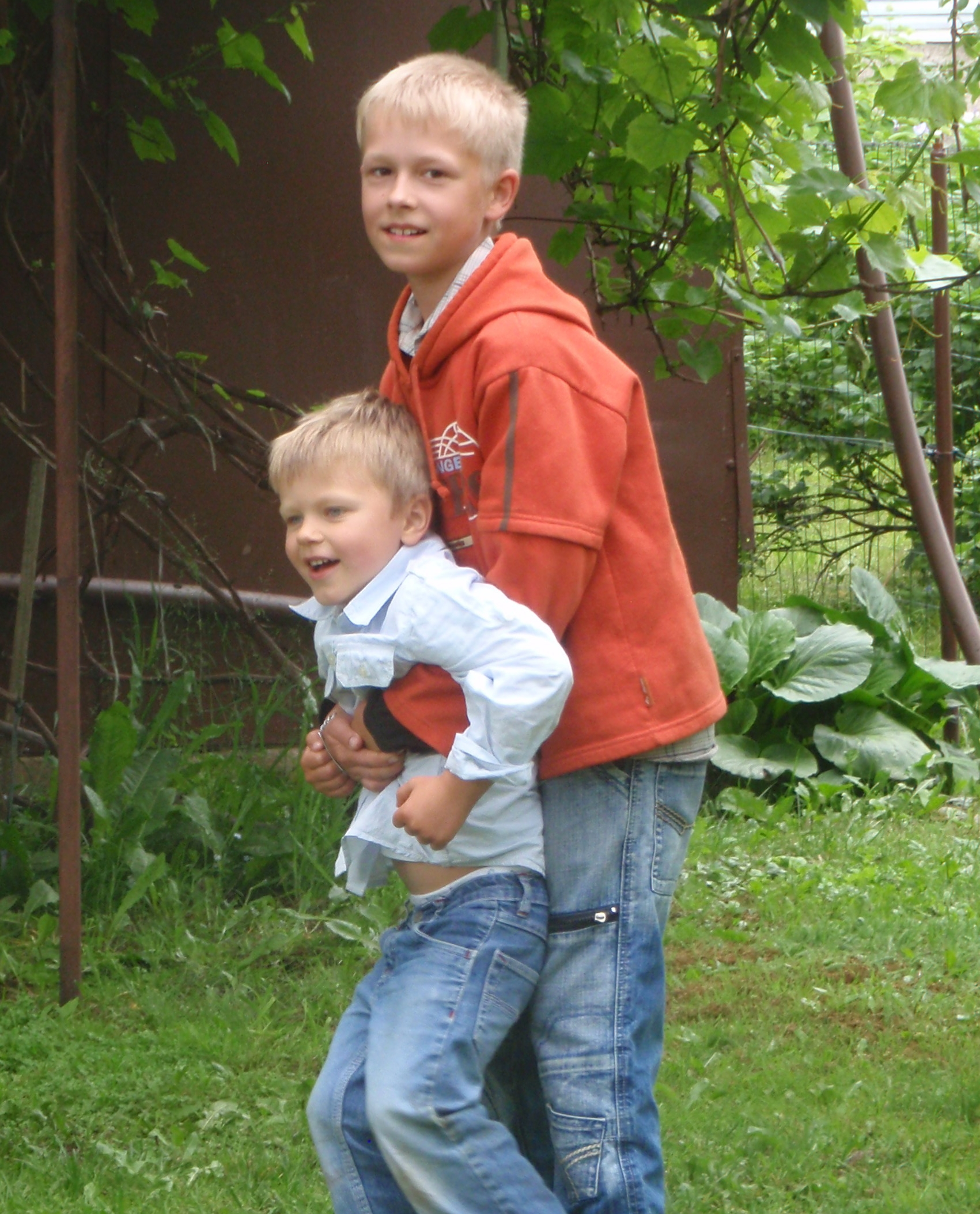 two blond boys (cousins from an esperanto speaking family of lithuanian and german roots)